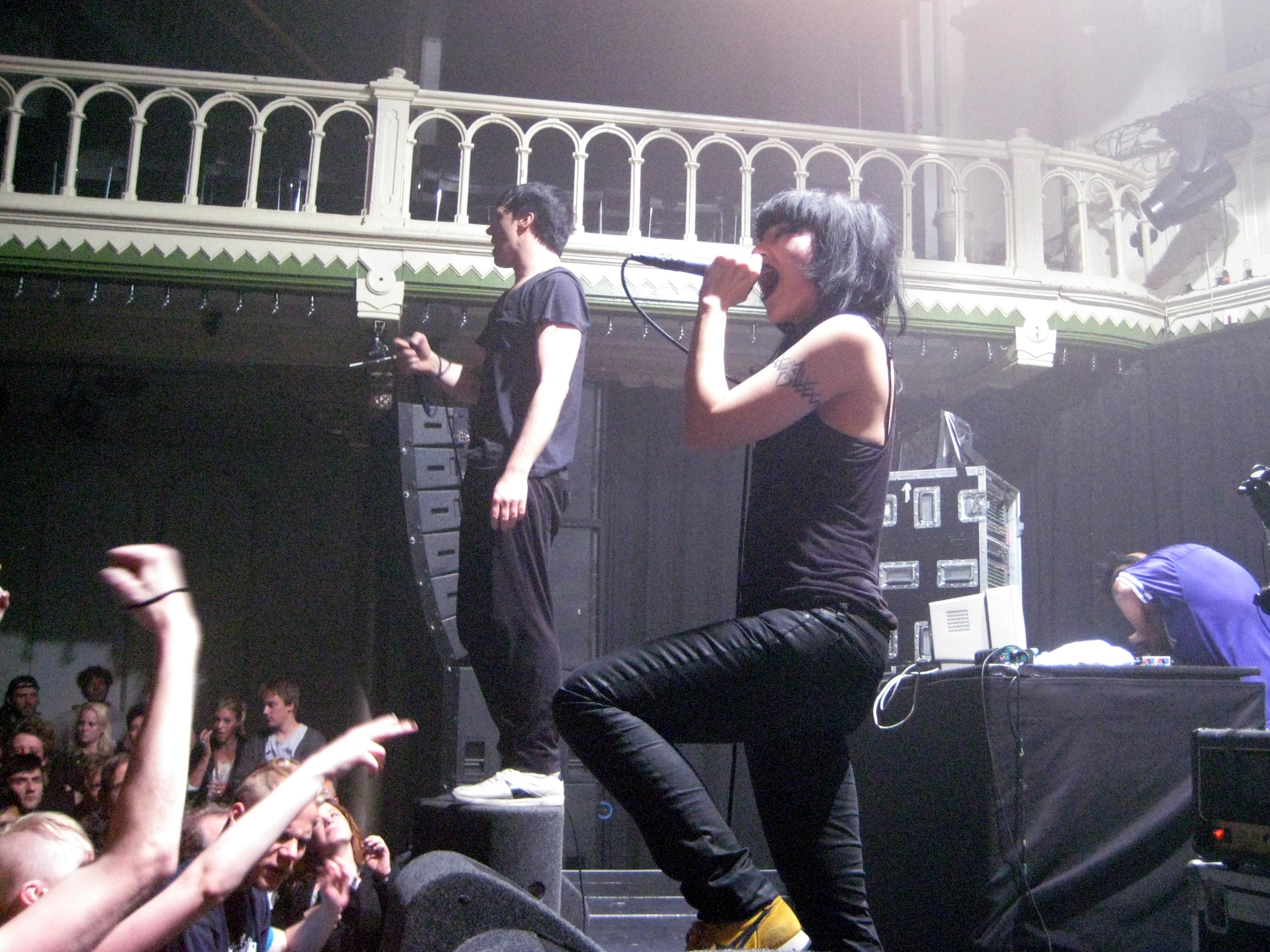 Atari Teenage Riot, 2011.